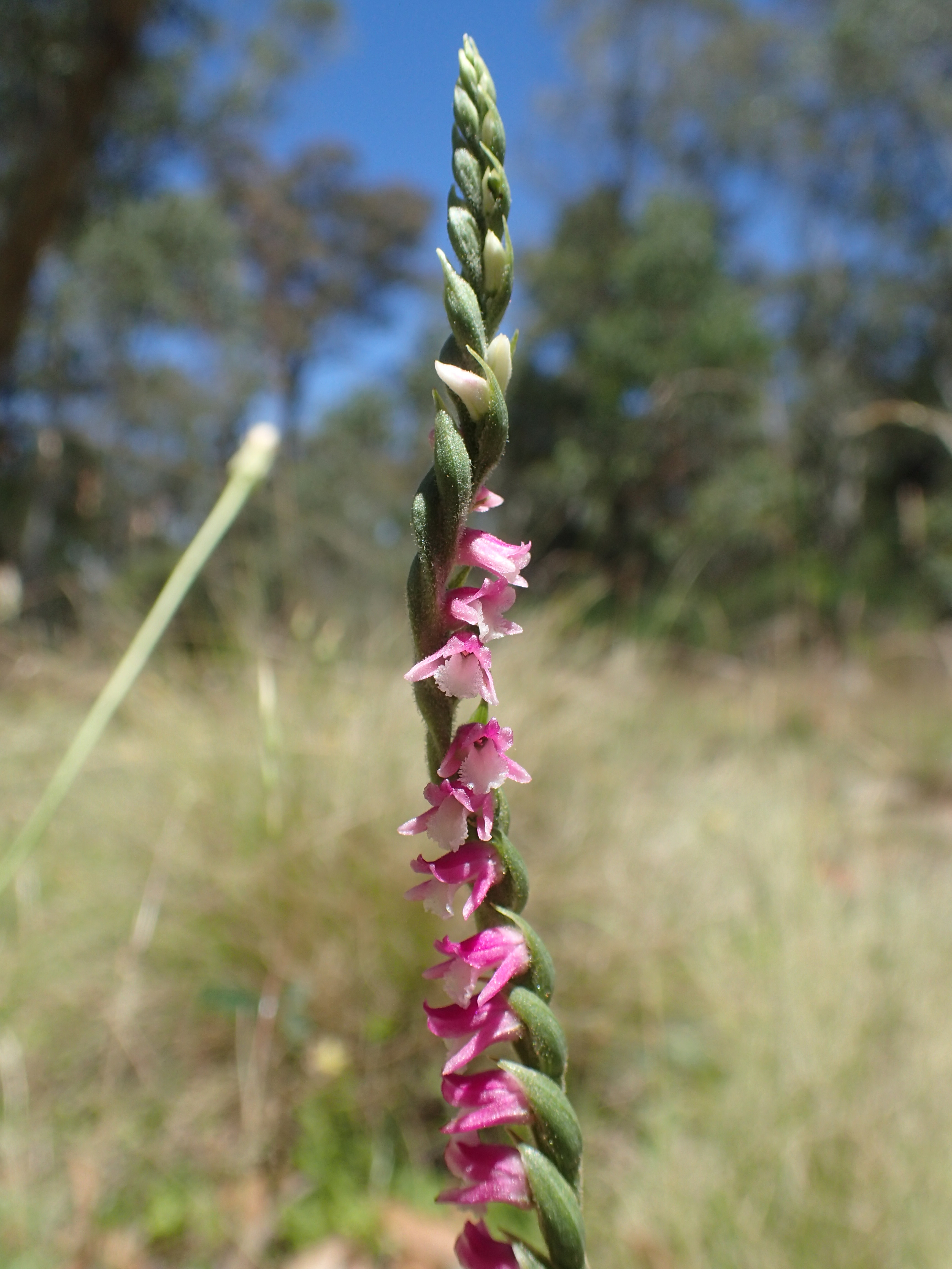 Spiranthes australis (habit) growing in the Barrington Tops National Park